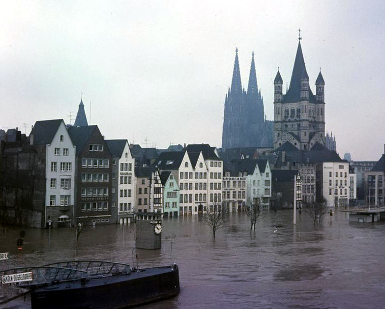 The Rhine inundates Cologne, 1970. In the background Cologne Cathedral can be seen